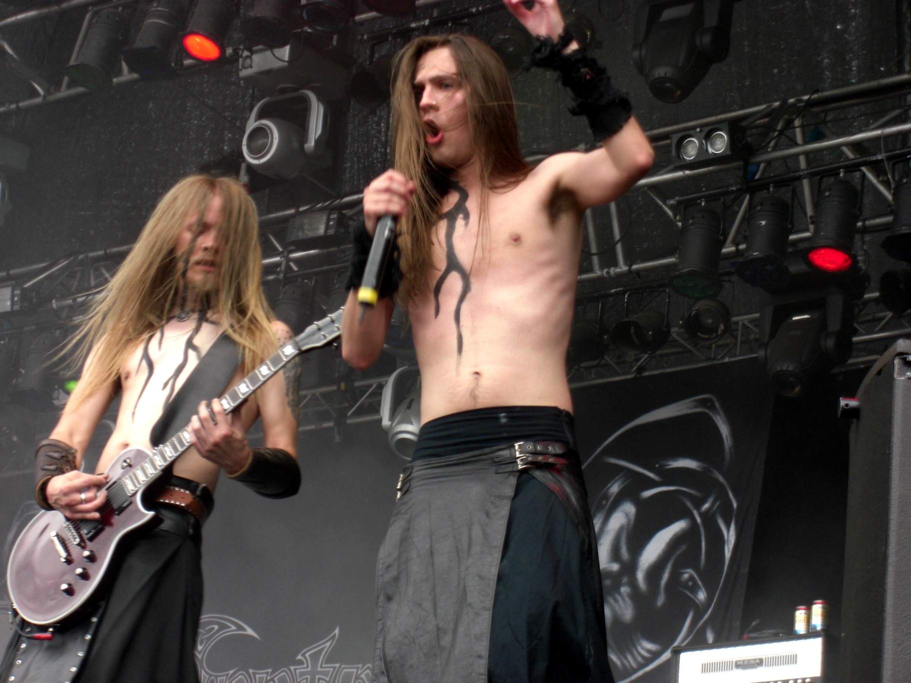 Finntroll at Metaltown, Göteborg 2008